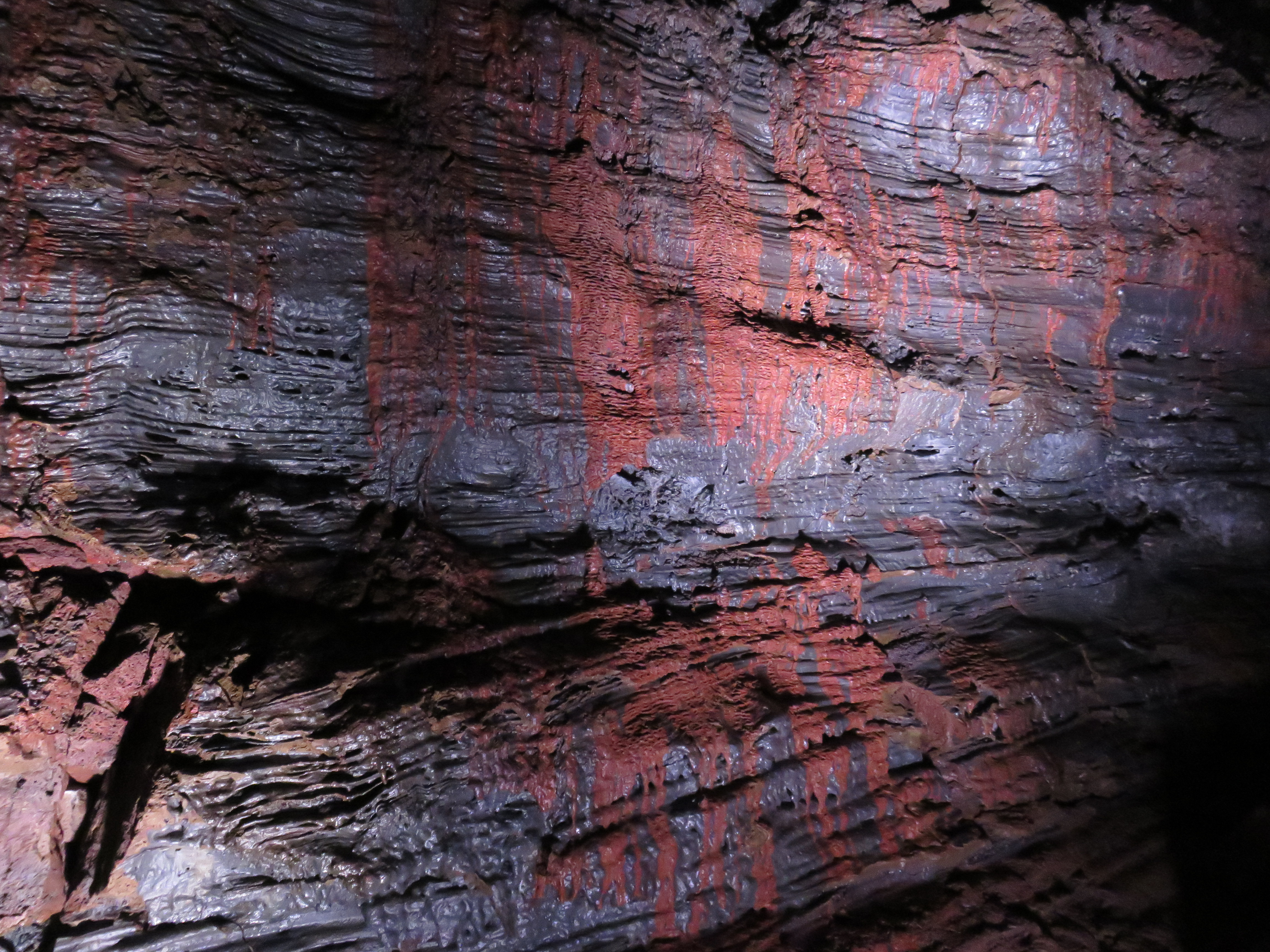 Interior of Raufarhólshellir lava tube in Iceland